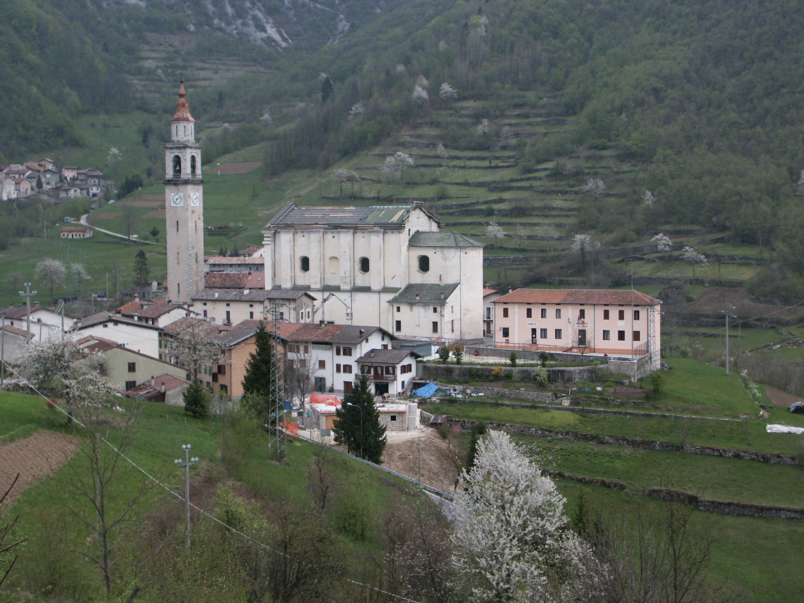 Italy, Veneto